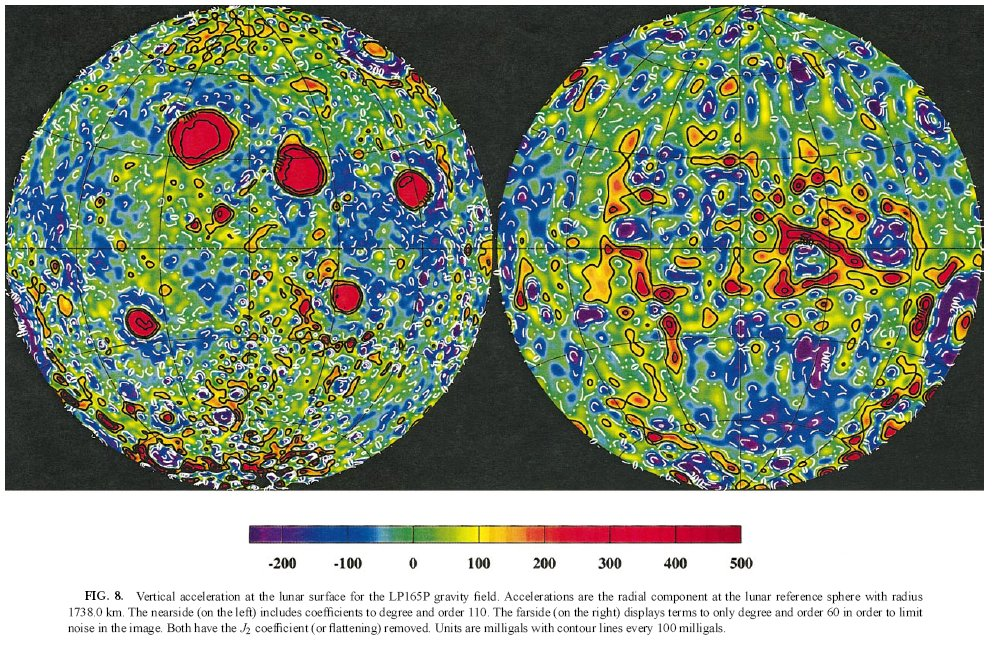 A gravity map of the moon made by the Lunar Prospector spacecraft in 1998-99. Mascons are shown in orange-red. The five largest all correspond to the largest lava-filled craters or lunar "seas" visible in binoculars on the near side of the Moon: Mare Imbrium, Mare Serenitatus, Mare Crisium, Mare Humorum and Mare Nectaris. (Vertical acceleration at the lunar surface for the LP165P gravity field. Accelerations are the radial component at the lunar reference sphere with radius 1738.0 km.) Image reference: Alex S. Konopliv et al, Icarus 150, 1-18 (2001)